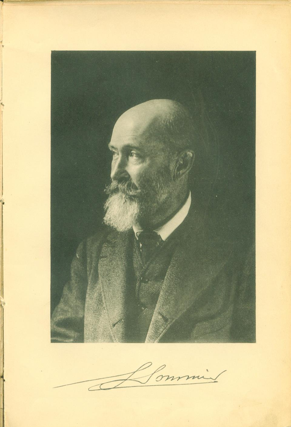 Photographic portrait of the botanist Stefano Sommier (1848-1922) preserved in the Botanical Library of the University of Florence